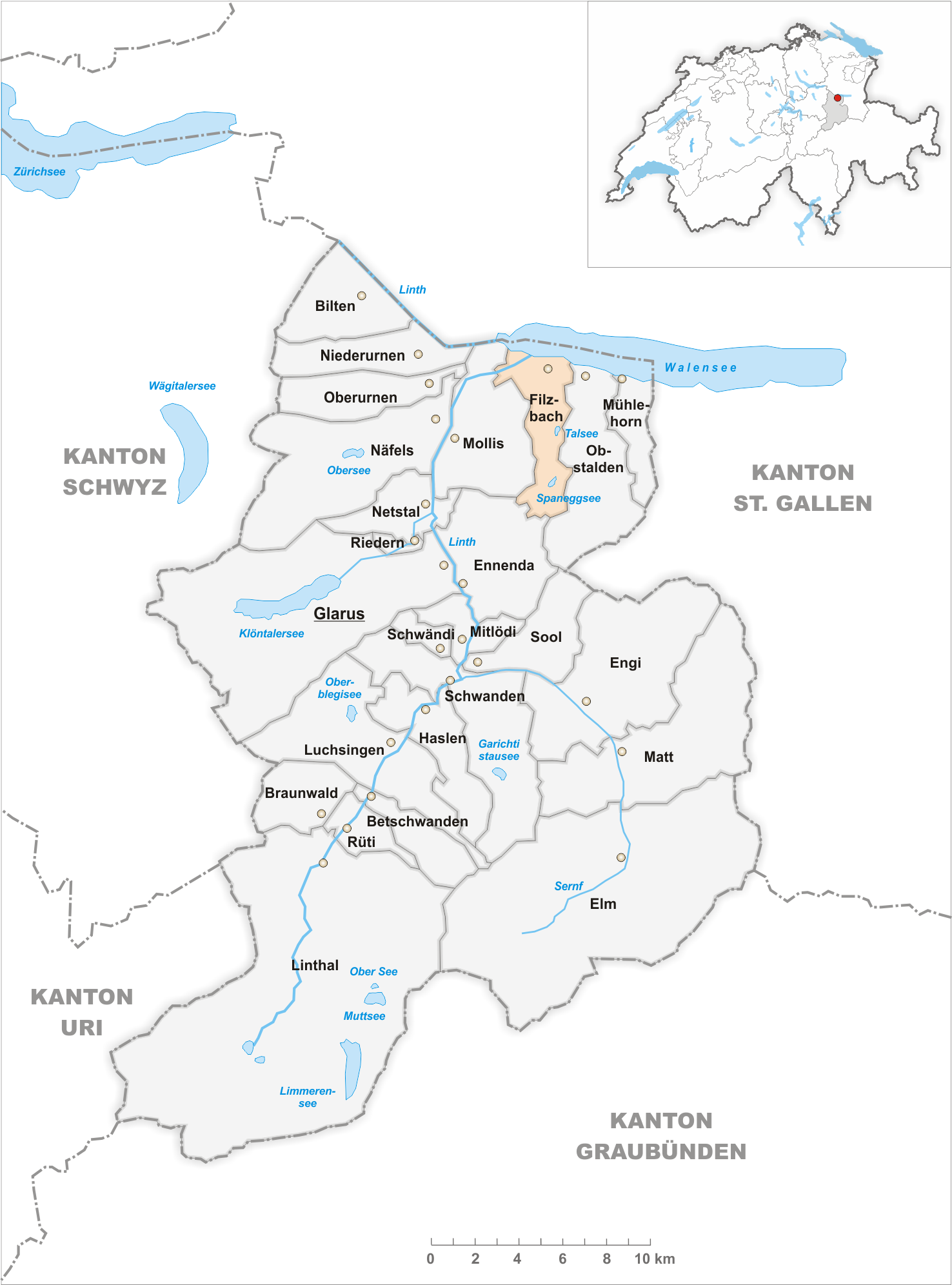 Municipality Filzbach